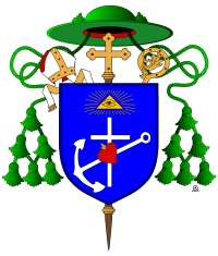 Coat of arms of Bartolomej Augustin Hille, Bishop of Litoměřice